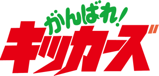 Ganbare, Kickers! (がんばれ!キッカーズ) logo.